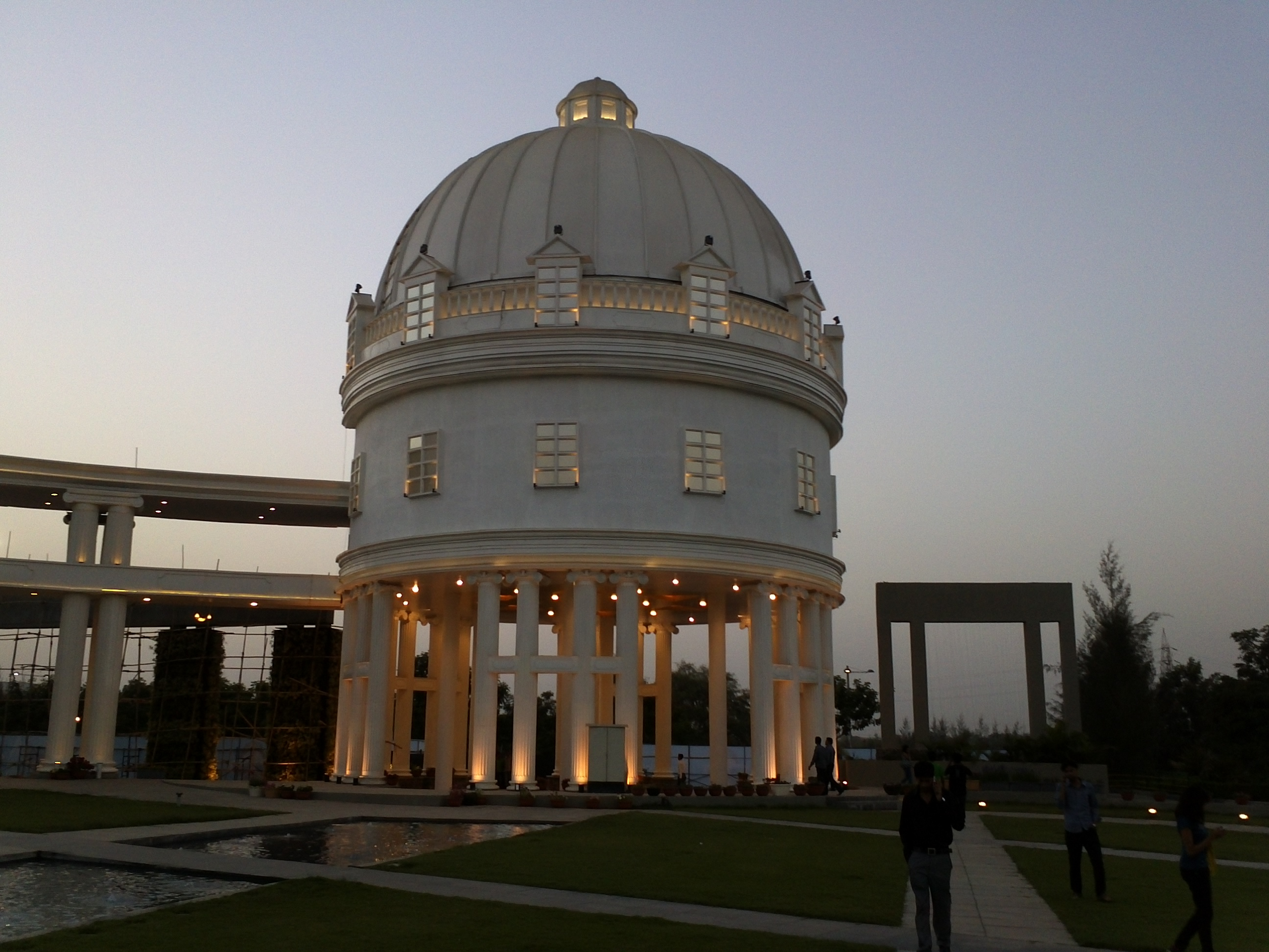 Amanora Township City Center